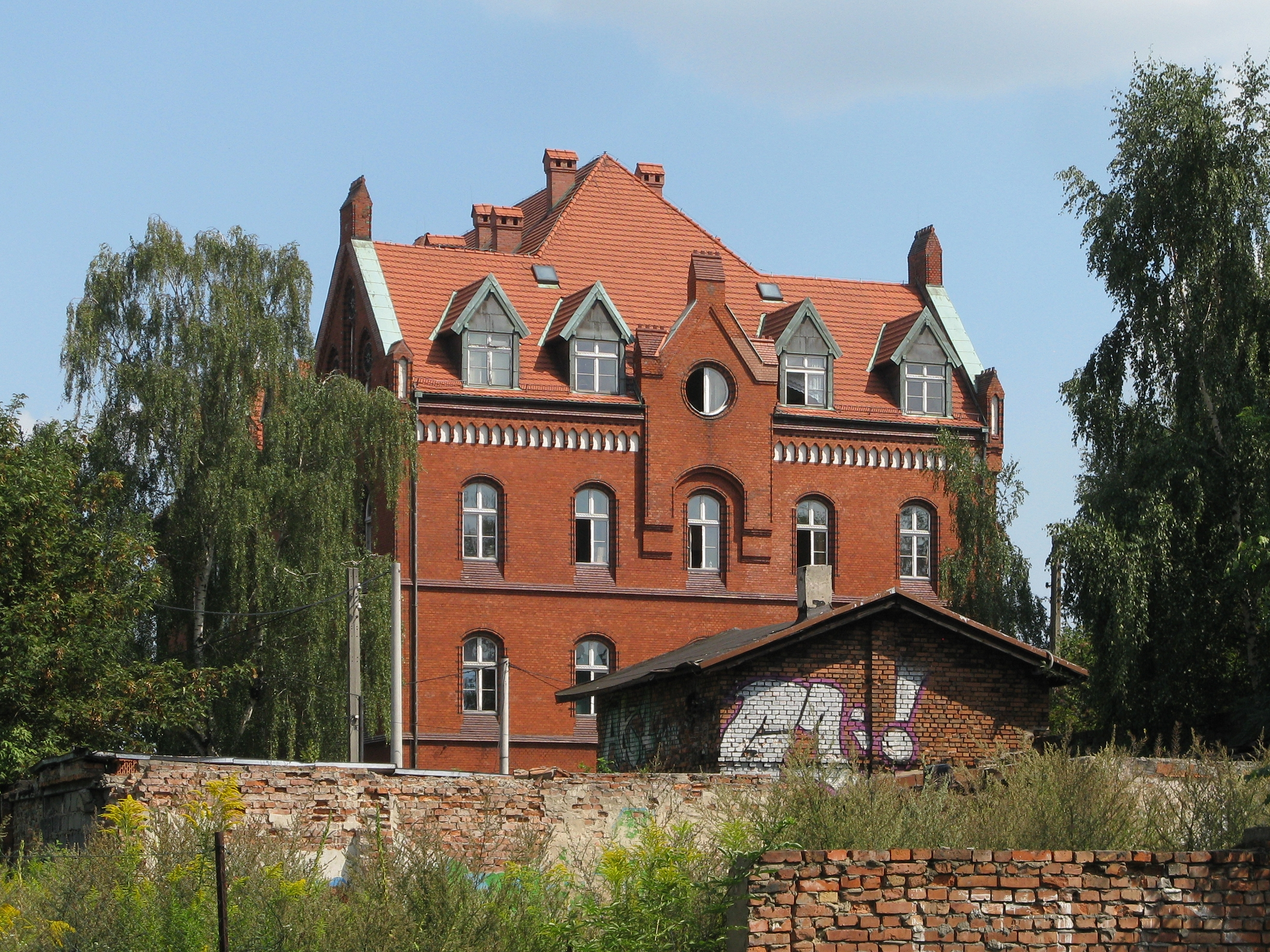 St. Elizabeth hospital in Katowice, Warszawska 52a street, seen from Górnicza street, Poland.